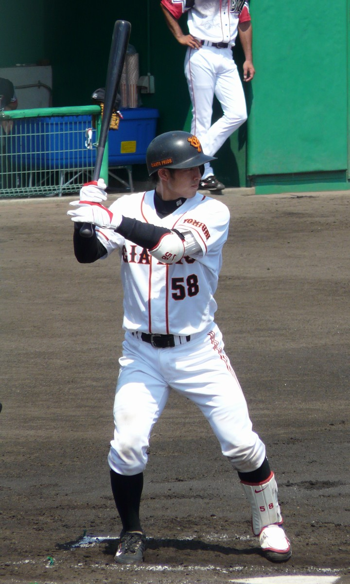 Takanori Hoshi, catcher of the Yomiuri Giants, at Yokkaichi Kasumigaura Baseball Stadium.